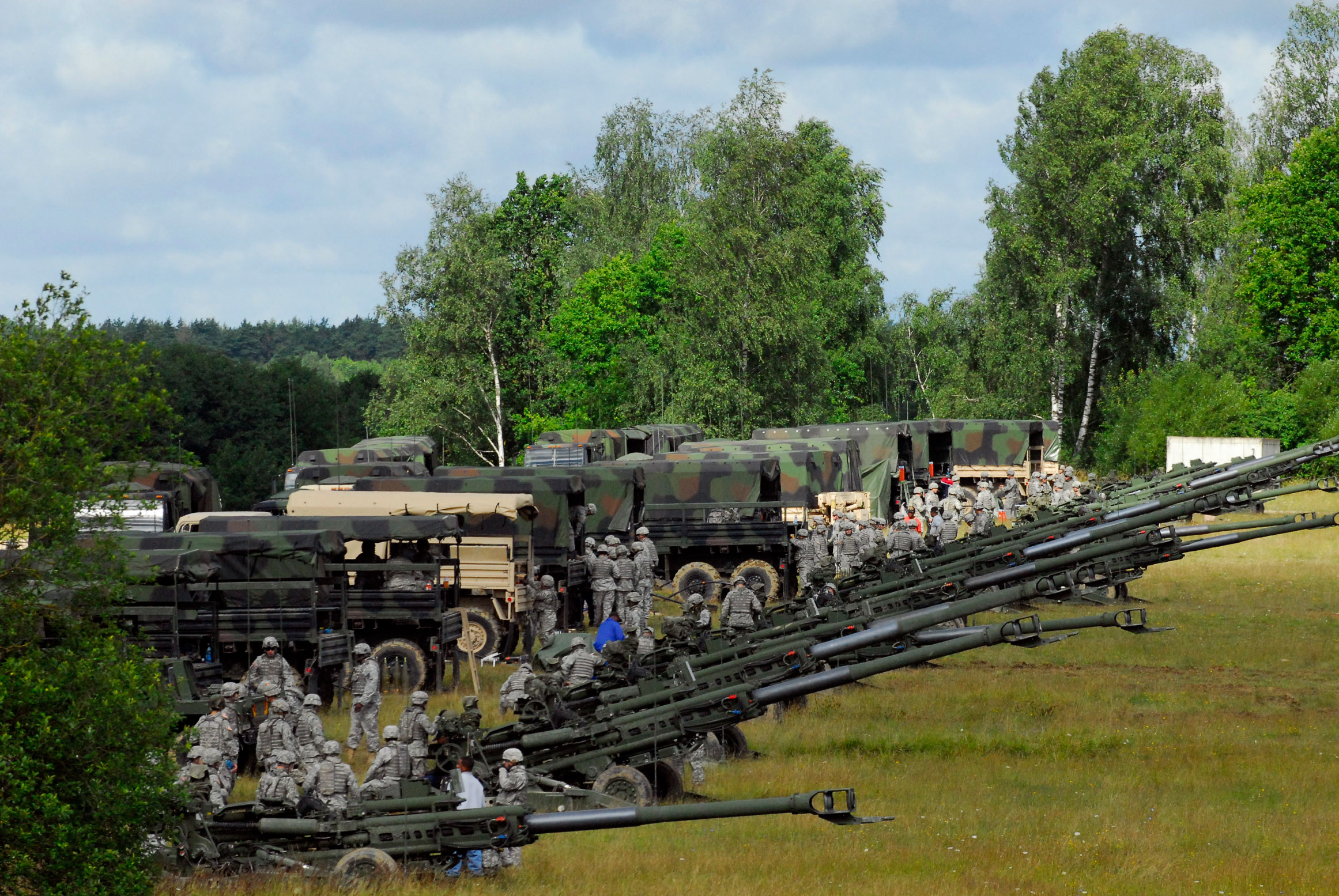 Soldiers assigned to 2nd Cavalry Regiment prepare to fire the M777 Howitzer during a training exercise at the Grafenwoehr Training Area on July 24, 2009. The ranges on Grafenwoehr are the only place in Europe where units can hone their skills with large caliber weapon systems like the M777. See more at Europe-based Soldiers get chance to test-fire, train with Army's newest howitzer